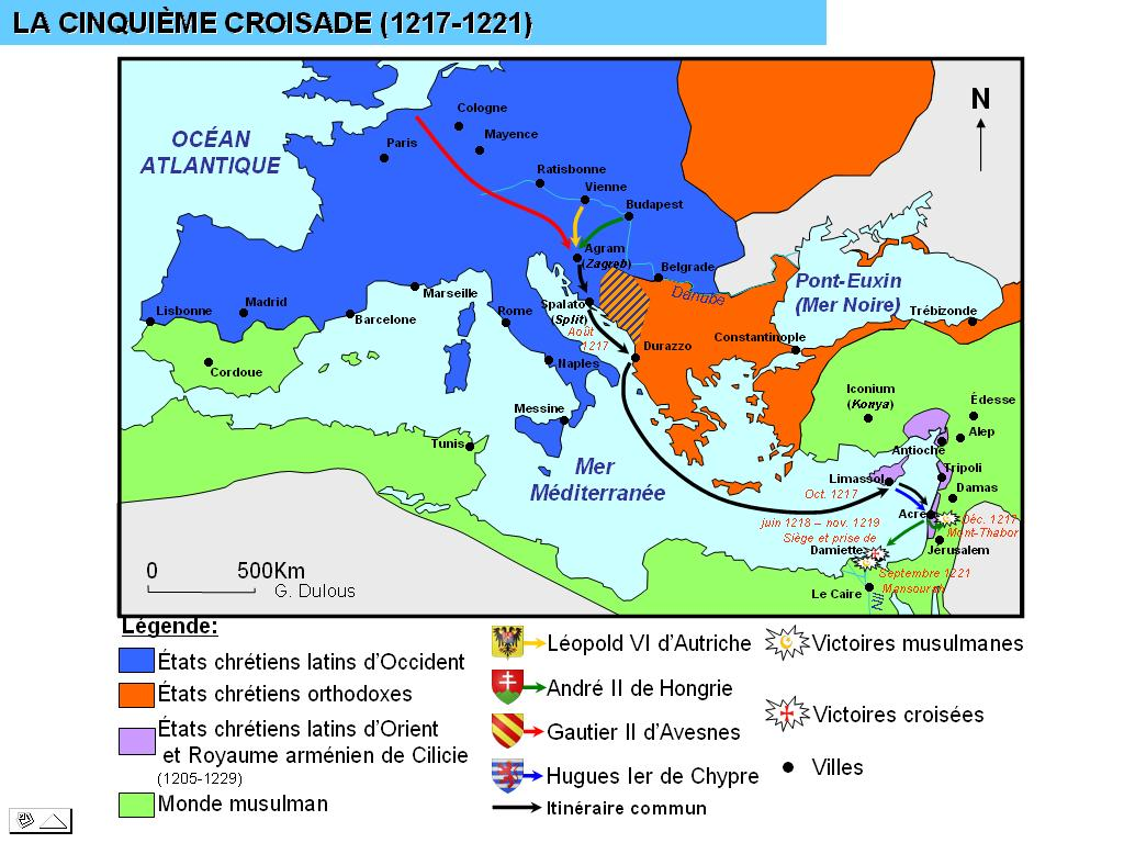 Fifth crusade